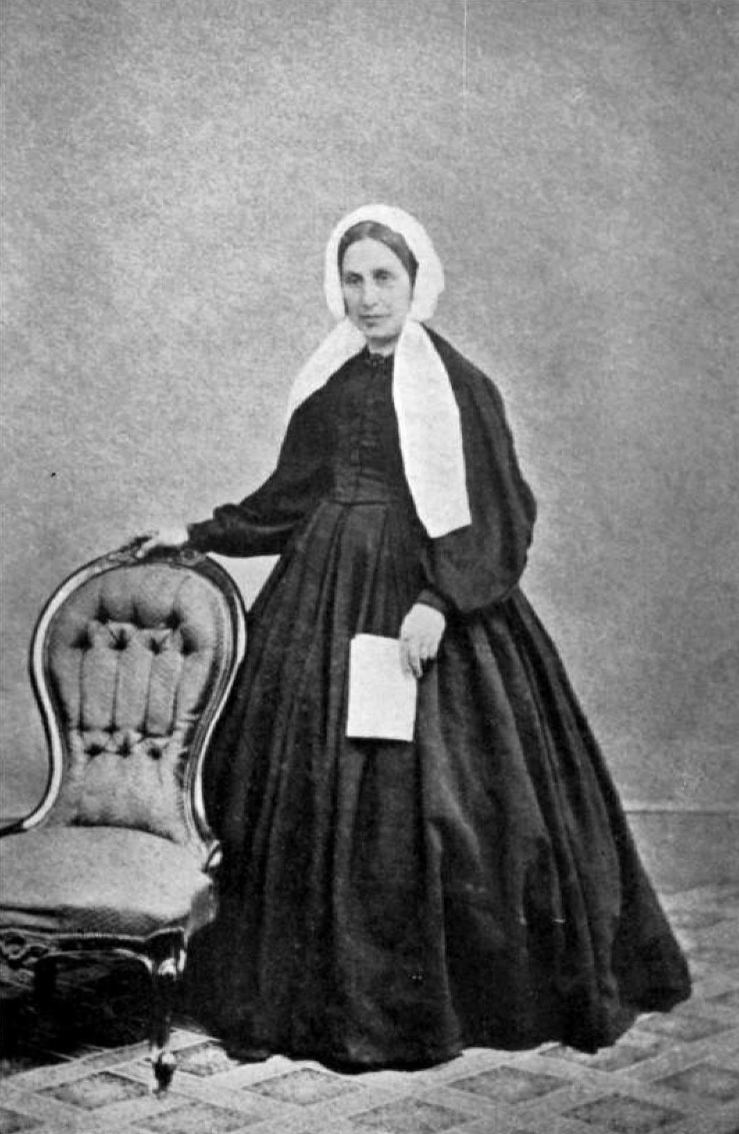 Emma Völkner, wife of Missionary Carl Sylvius Völkner (19th century)